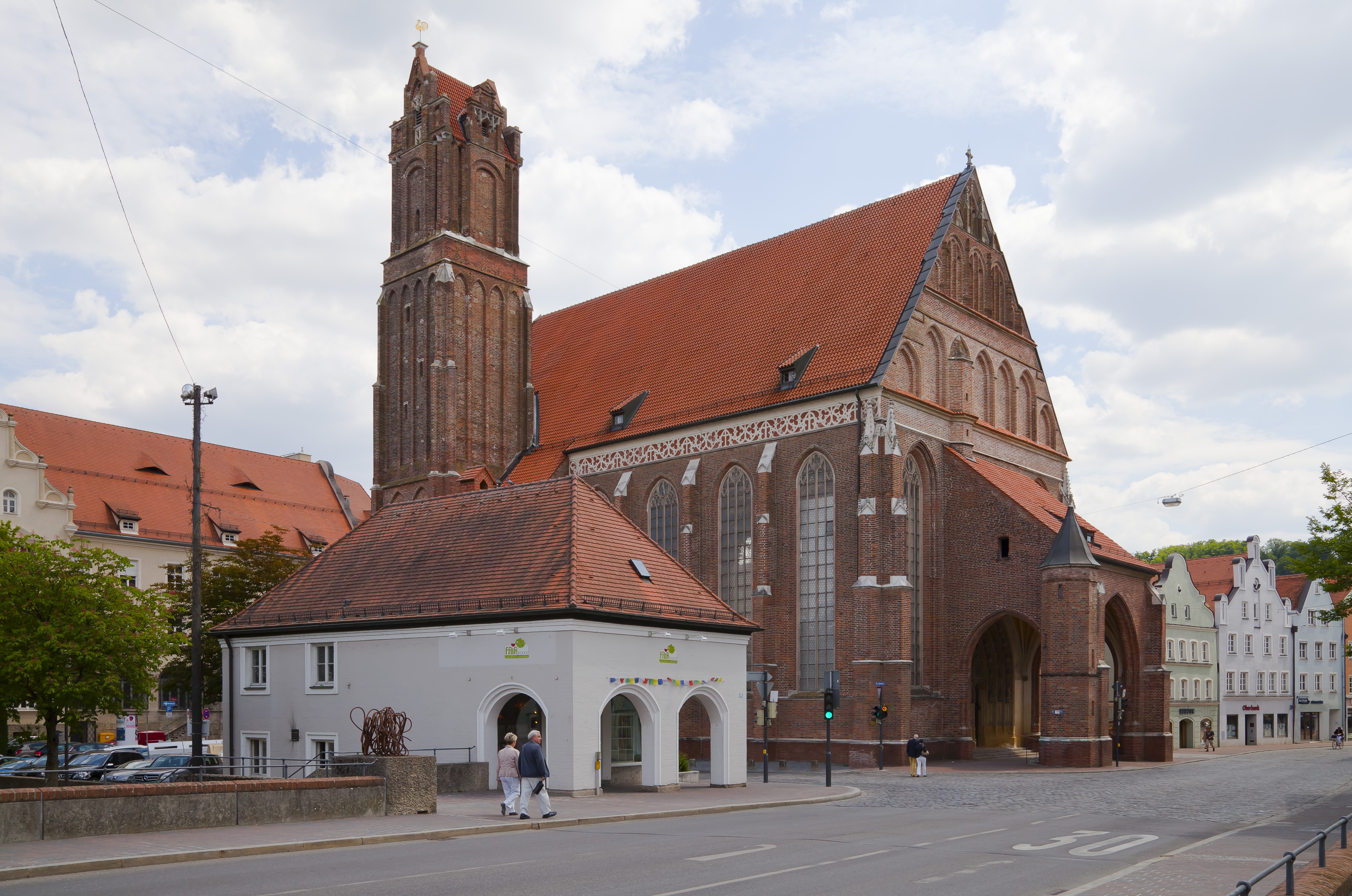 Church of the Holy Spirit, Landshut, Germany